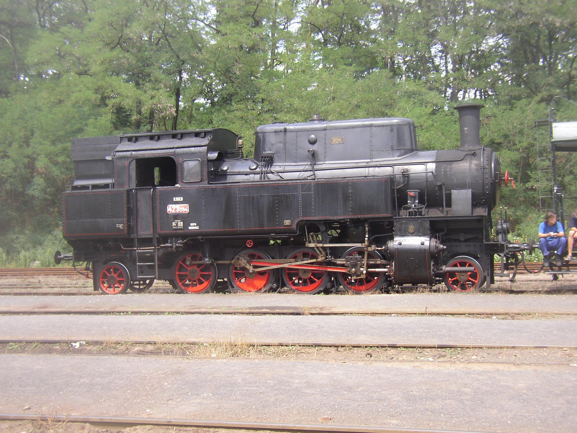 Former ČSD steam locomotive 423.094 at Lužná u Rakovníka station, Czech Republic.